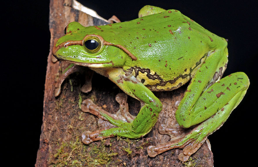 Rhacophorus burmanus at Sunderview , Eaglenest Wildlife Sanctuary. (West Kameng District, Arunachal Pradesh, India)